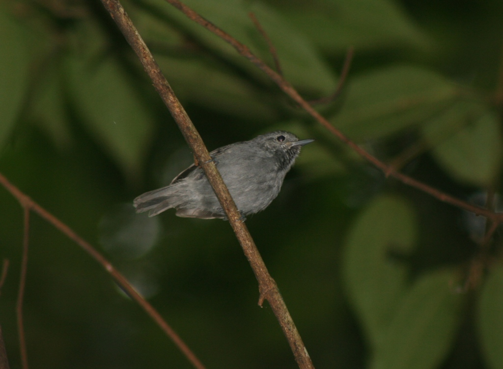 Unicoloured Antwren -- Myrmotherula unicolor -- Choquinha-cinzenta In low light in forest, so light-enhanced. For my full bird list at this location ( Miracatú, São Paulo State, Brazil)